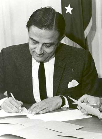 Dr. Vikram A. Sarabhai, (left) Chairman of the Indian Space Research Organization (ISRO) and head of India's Department of Atomic Energy and Dr. Thomas O. Paine, NASA Administrator, sign an agreement to cooperate in an unprecedented experiment using a space satellite to bring instructional television programs to some 5,000 Indian villages. The Applications Technology Satellite 6 (ATS 6)satellite launched May 30, 1974, became available to the ISRO for one year on August 1, 1975. ATS 6 acted as a broadcasting station in space, sending health and educational television programs to inexpensive ground stations in remote villages of India.